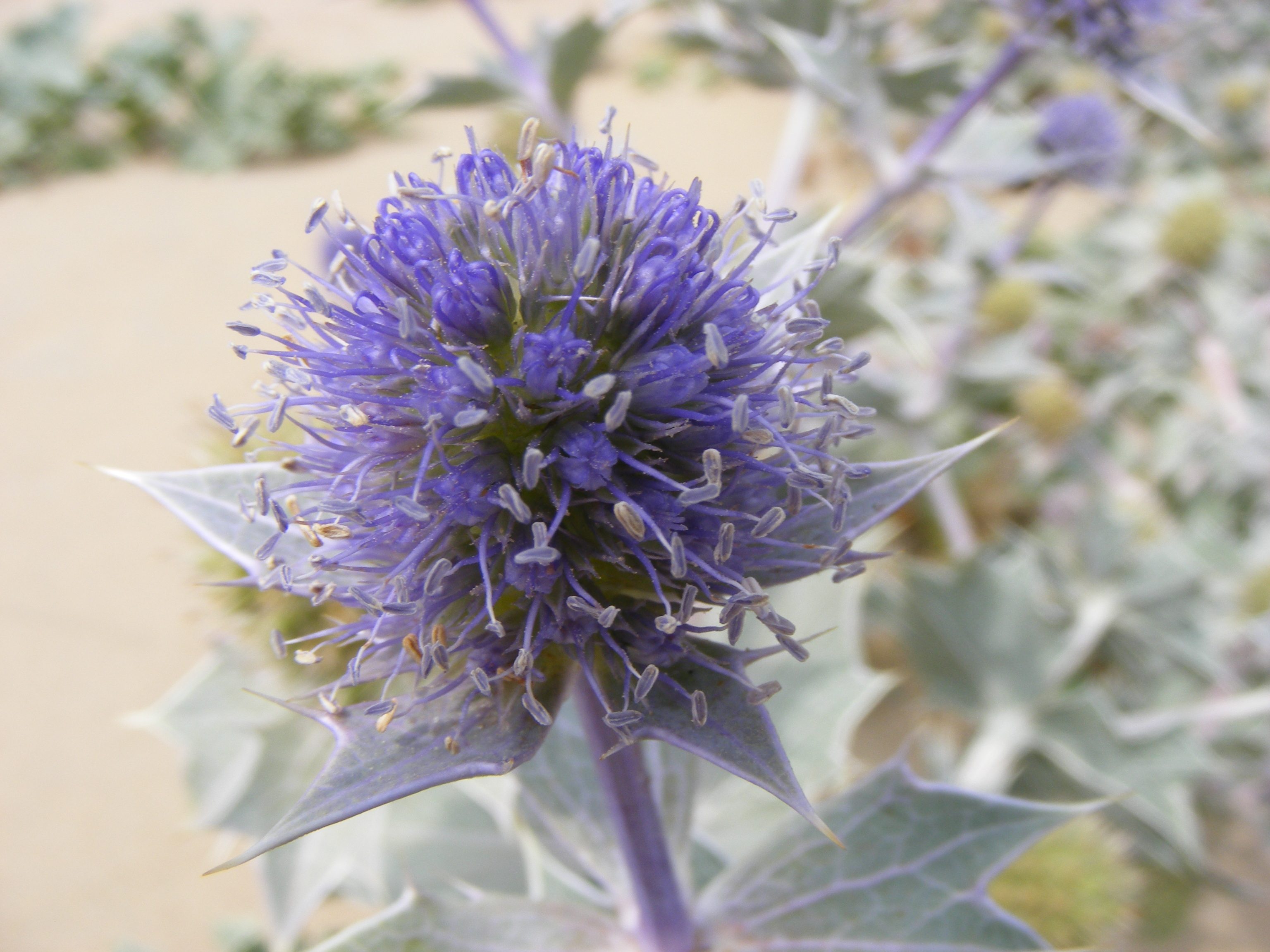 This photo shows Eryngium maritimum